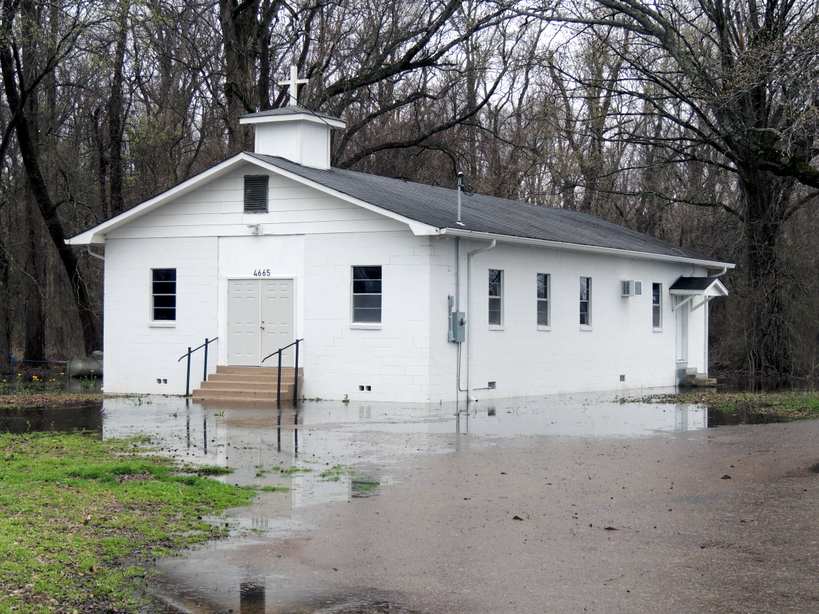 Flood waters in the Yazoo Backwater Area surround the Morning Star M.B. Church in Floweree, Mississippi, on 2 March 2019 when the stage was about 94.2 feet (28.7 meters) above sea level. The flood crested 4 feet (1.2 meters) higher on 23 May 2019 (and remains within a foot (0.3 meters) of that level as of early July).